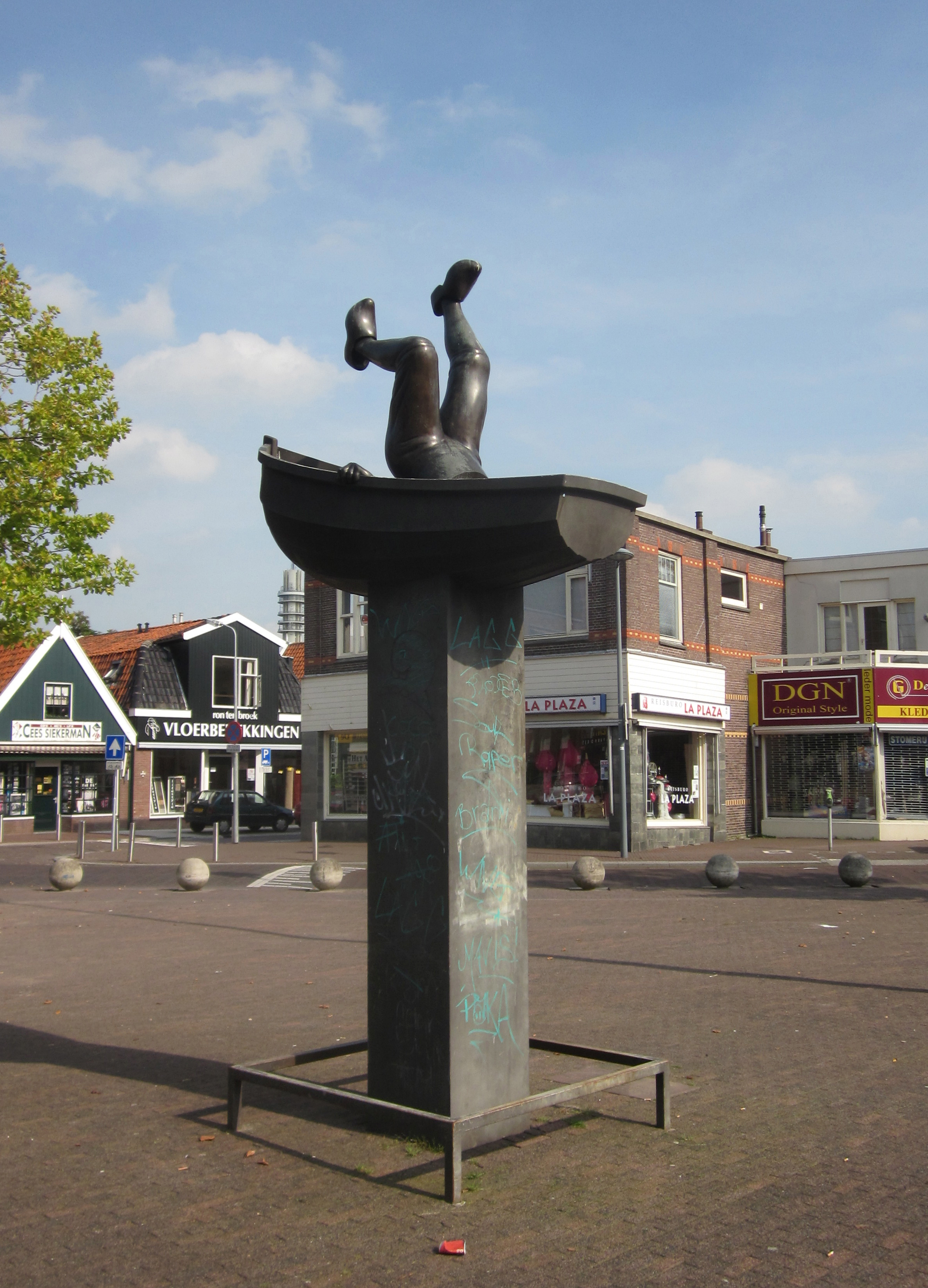 Sculpture of the fictional character "Keteltje" from a poem by Cor Bruijn. Made by Axel van der Kraan and Helena J. van der Kraan-Mázl in 1999 and placed at the Marktplein in Wormerveer in front of De Lorzie.